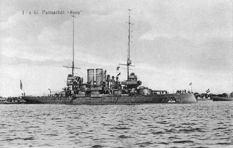 An old postcard of the Swedish battleship HMS Svea.